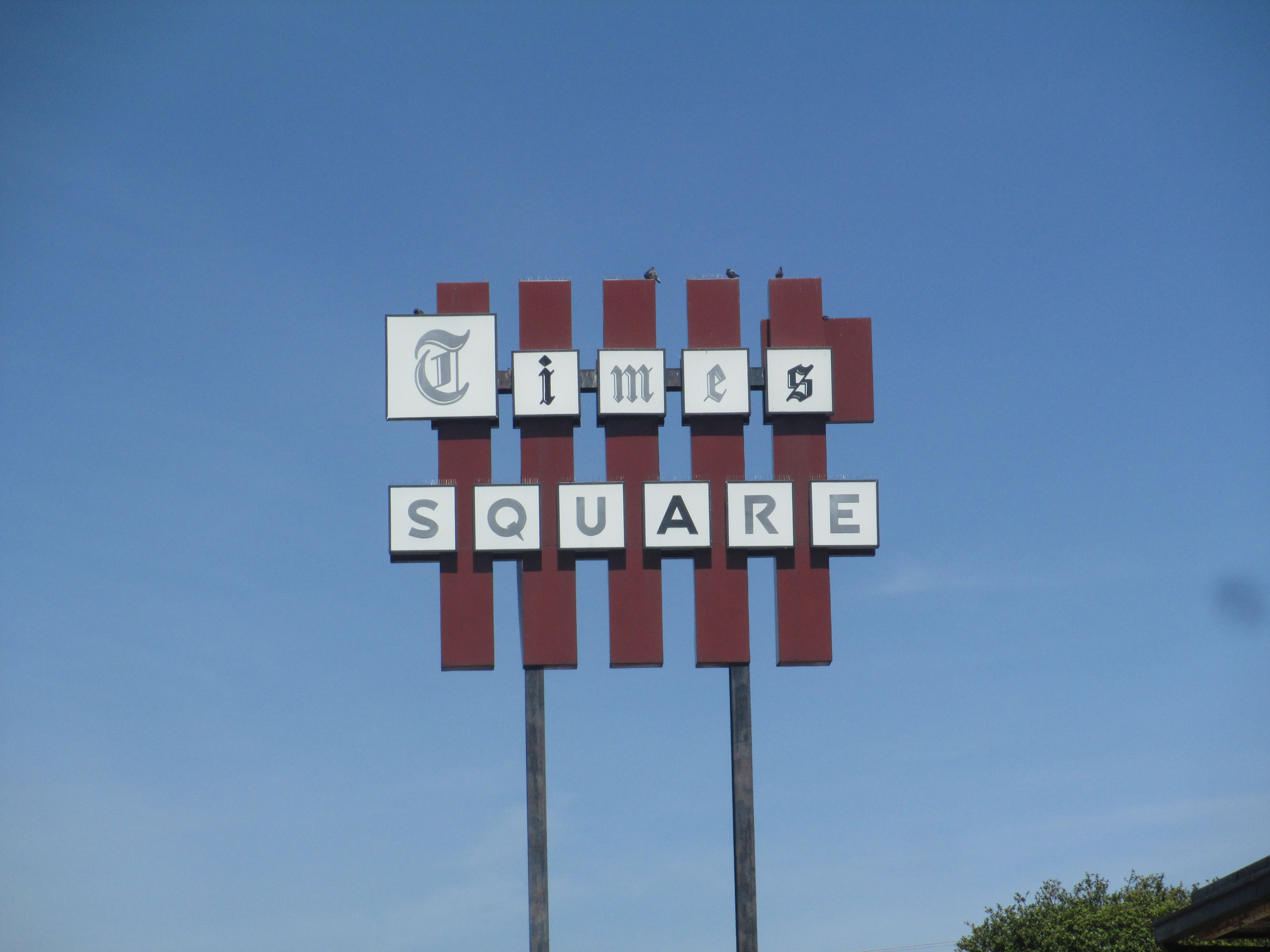 "Times Square", which includes the Wichita Falls Times Record News and Kemp Center for the Arts on Lamar Street. Wichita Falls, Texas